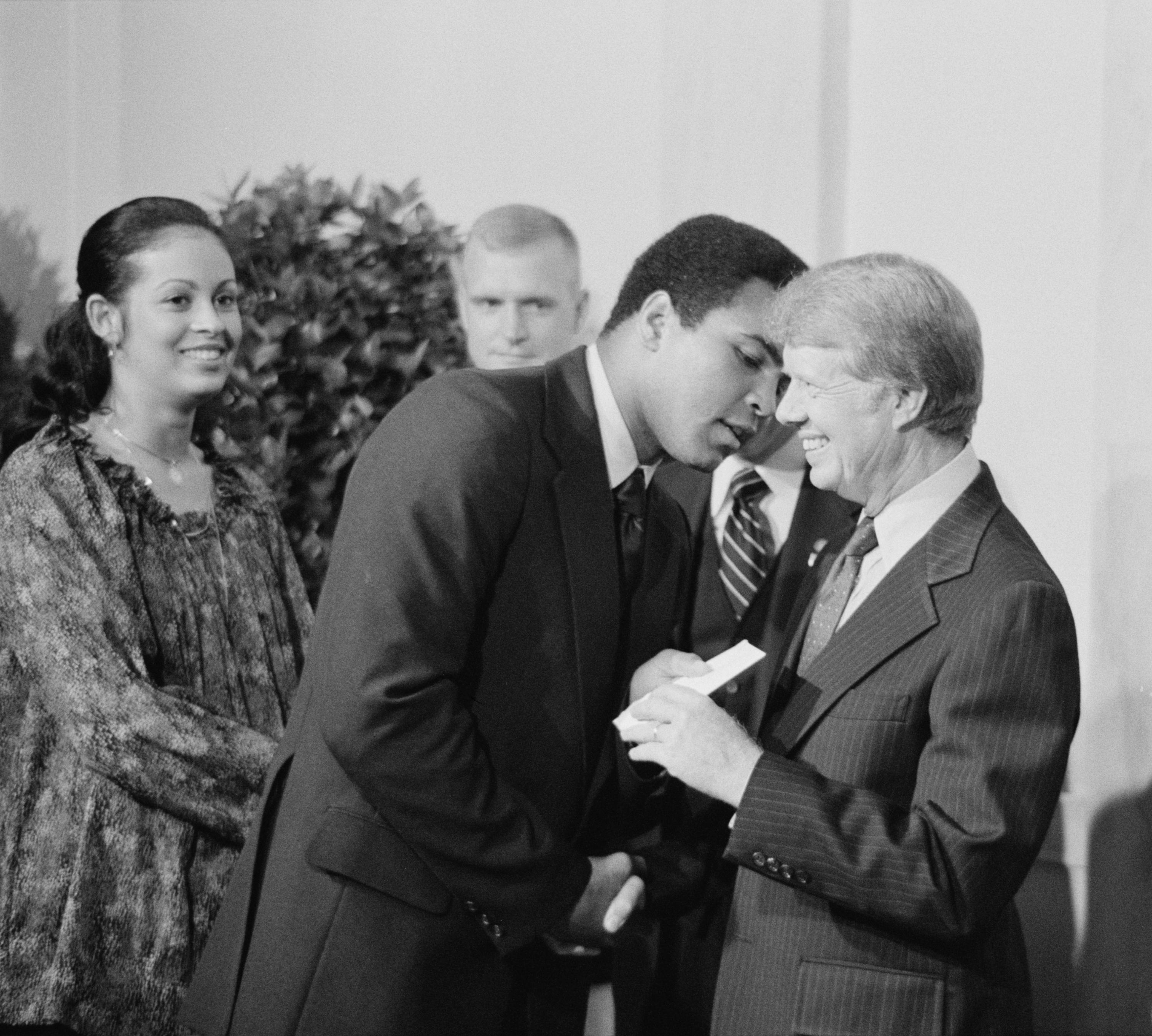 President Jimmy Carter greets Muhammad Ali at a White House dinner celebrating the signing of the Panama Canal Treaty, Washington, D.C. To the left is the wife of Ali, Veronica Porché Ali, then expecting the birth of their first child together, Laila Ali.